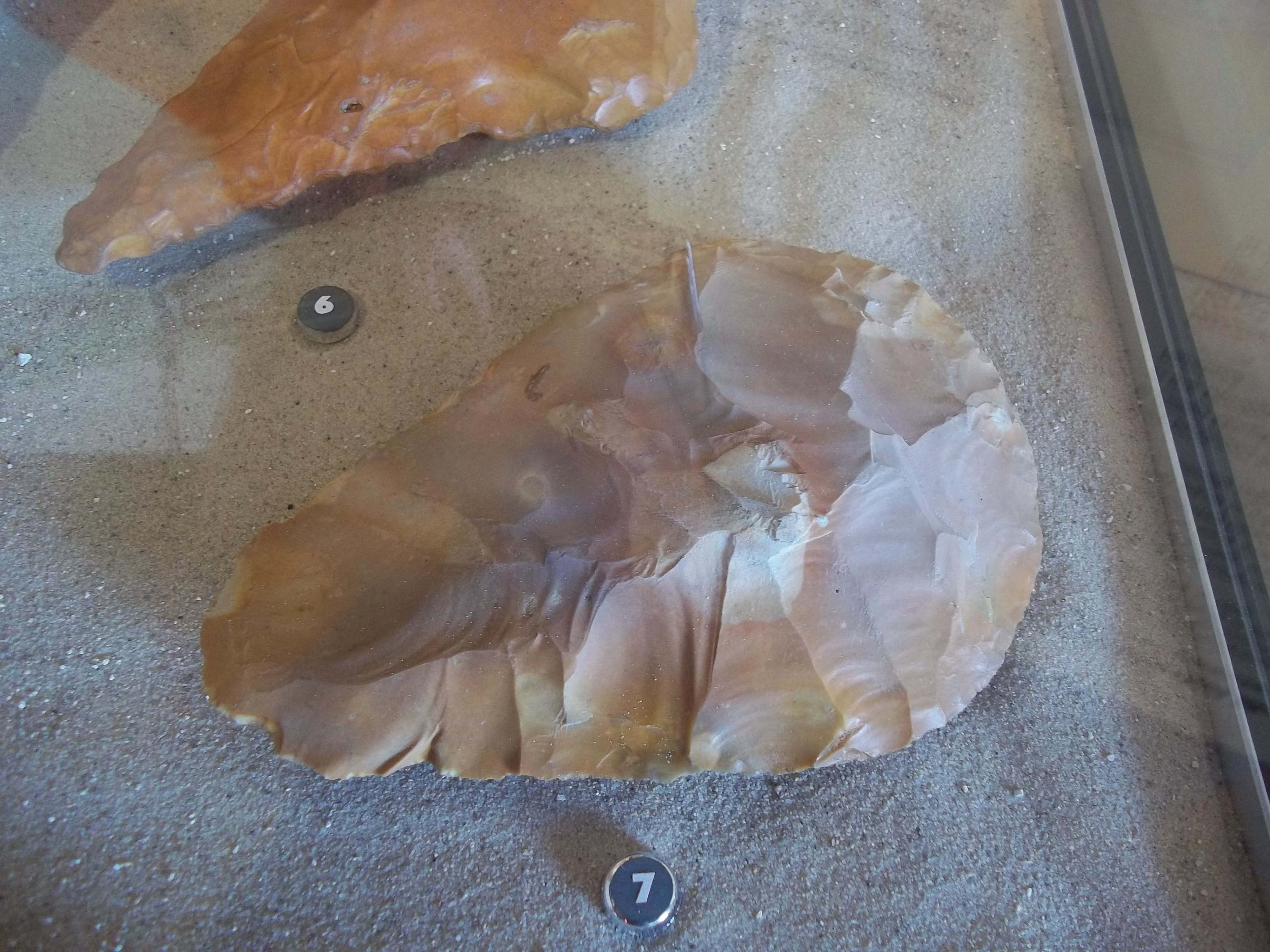 A Cordate Hand Axe on display in the Red House Museum, in Christchurch, Dorset, England. The caption next to it says that it came from "Ashley, Milton. Several hand axes were found in the gravel pits in Ashley in the mid-20th-century: [1]